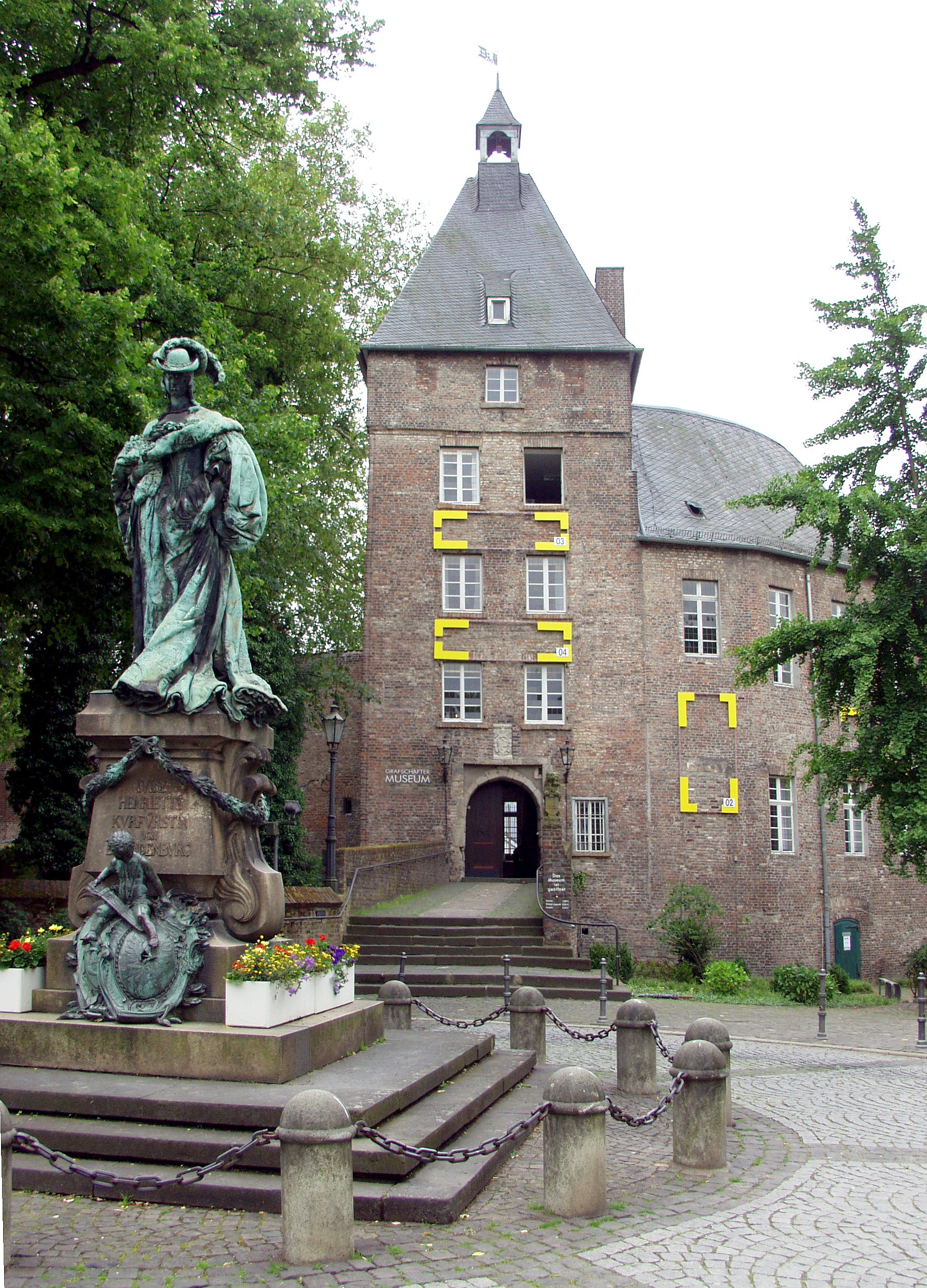 Moerser Schloss (castle) with statue of Kurfürstin Luise Henriette von Brandenburg Schloss: This is a photograph of an architectural monument. Denkmal: This is a photograph of an architectural monument.